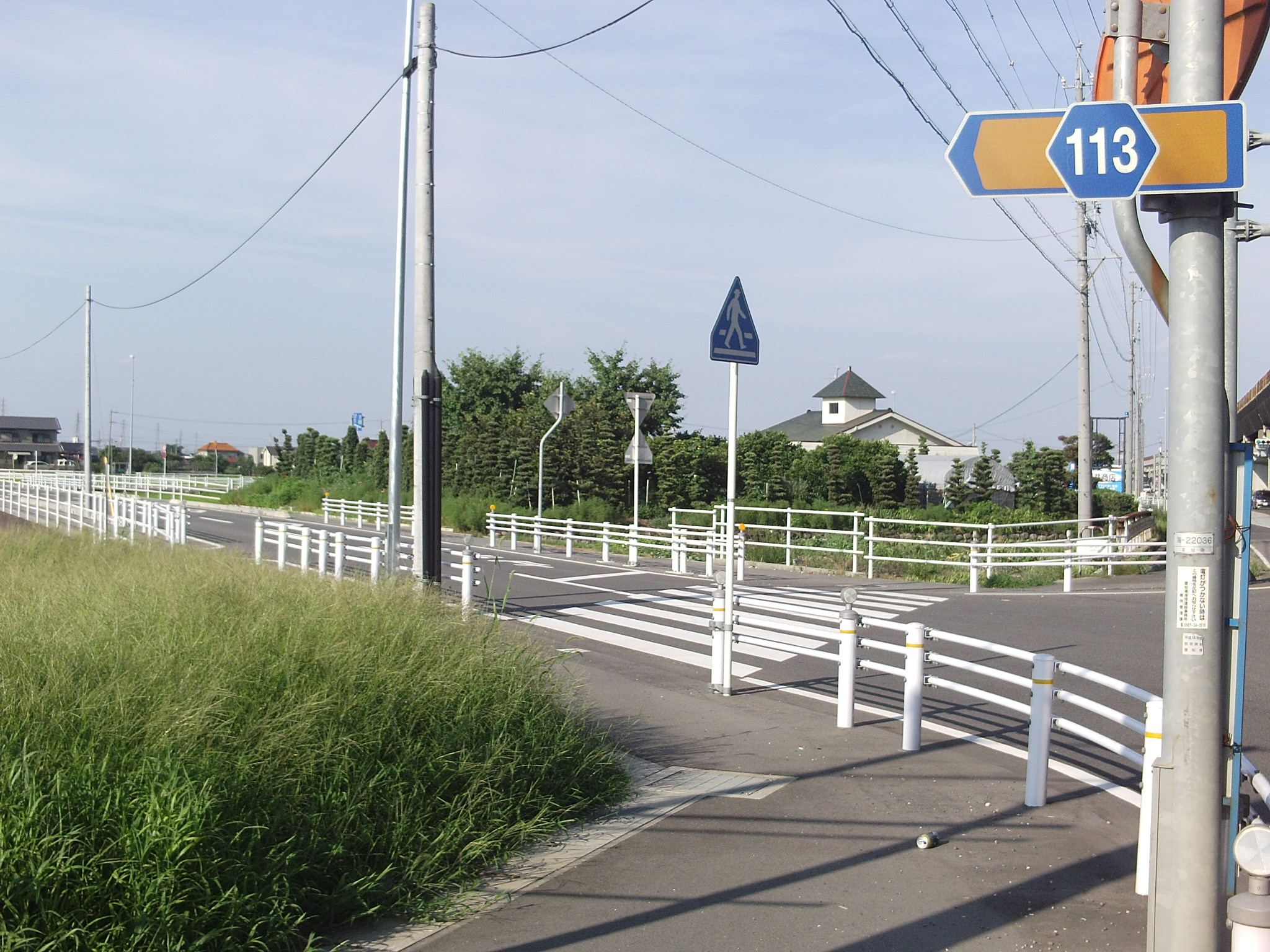 Aichi prefectural road No.113 in Ohicho, Aisai, Aichi.